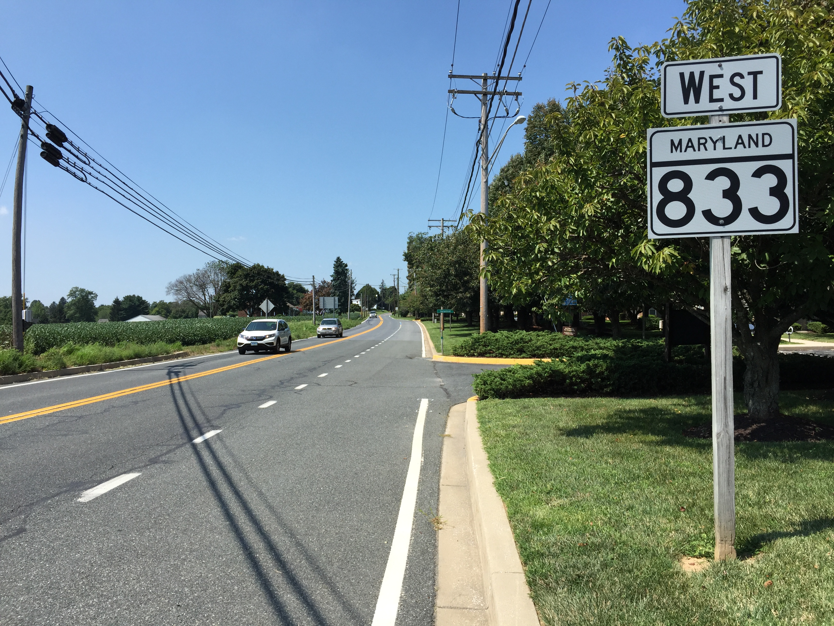 View west along Maryland State Route 833 (Black Rock Road) at Maryland State Route 88 (Lower Beckleysville Road) in Hampstead, Carroll County, Maryland